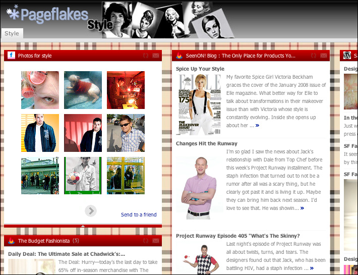 screenshot